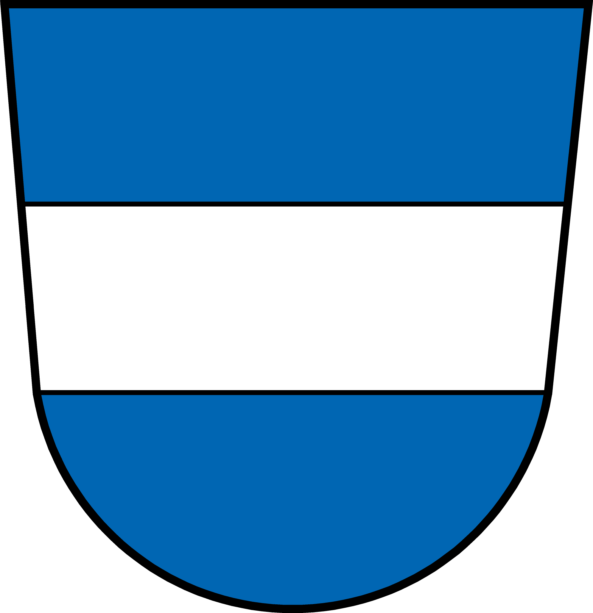 Coat of arms of the county of Hals (Passau). Blazon: Azure, a fess argent.